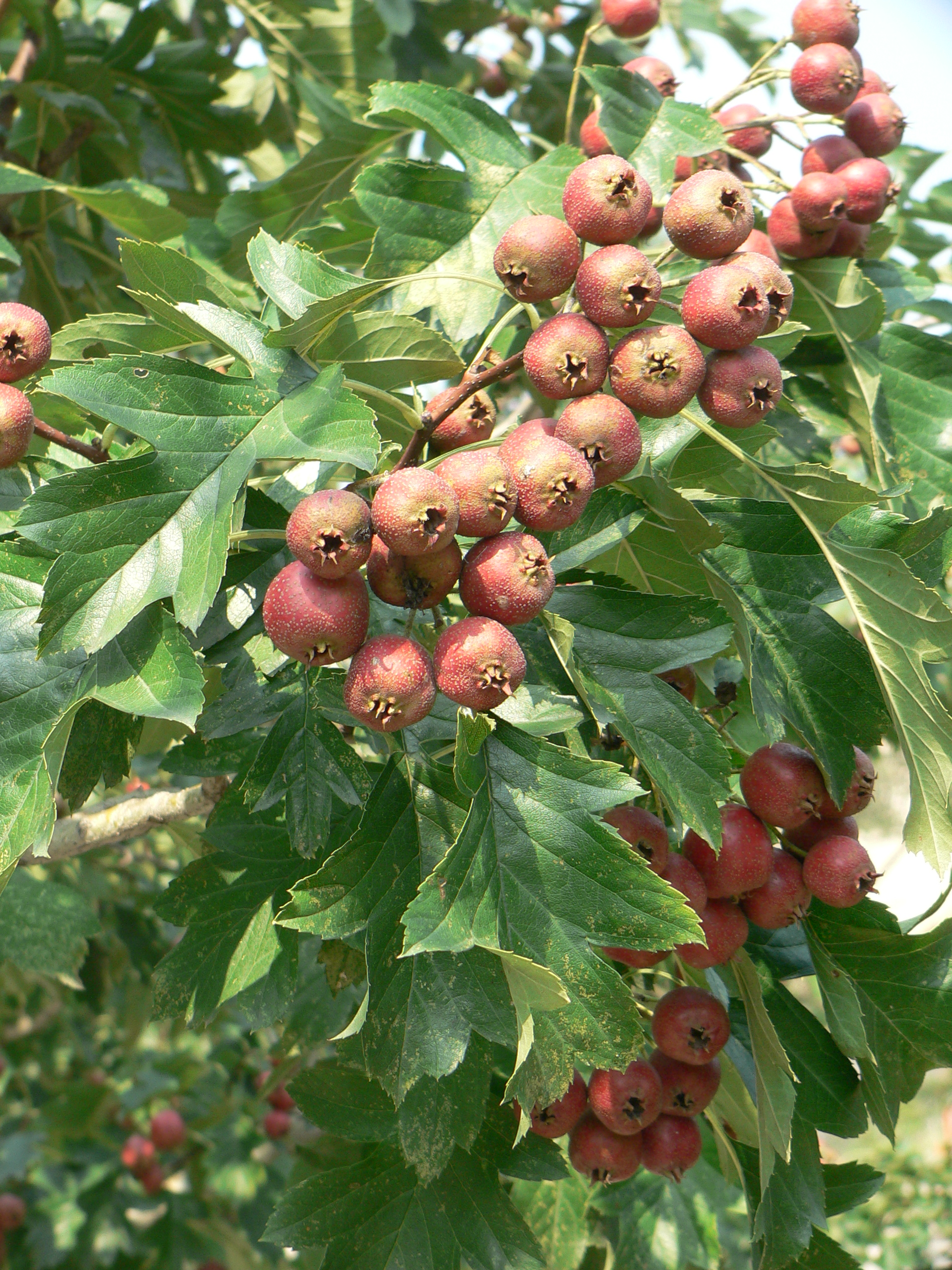 Hawthorn/山楂